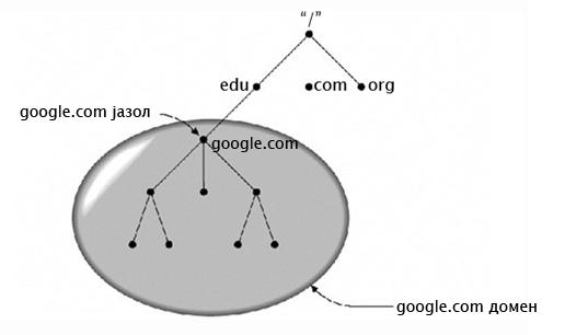 Description of a domain name